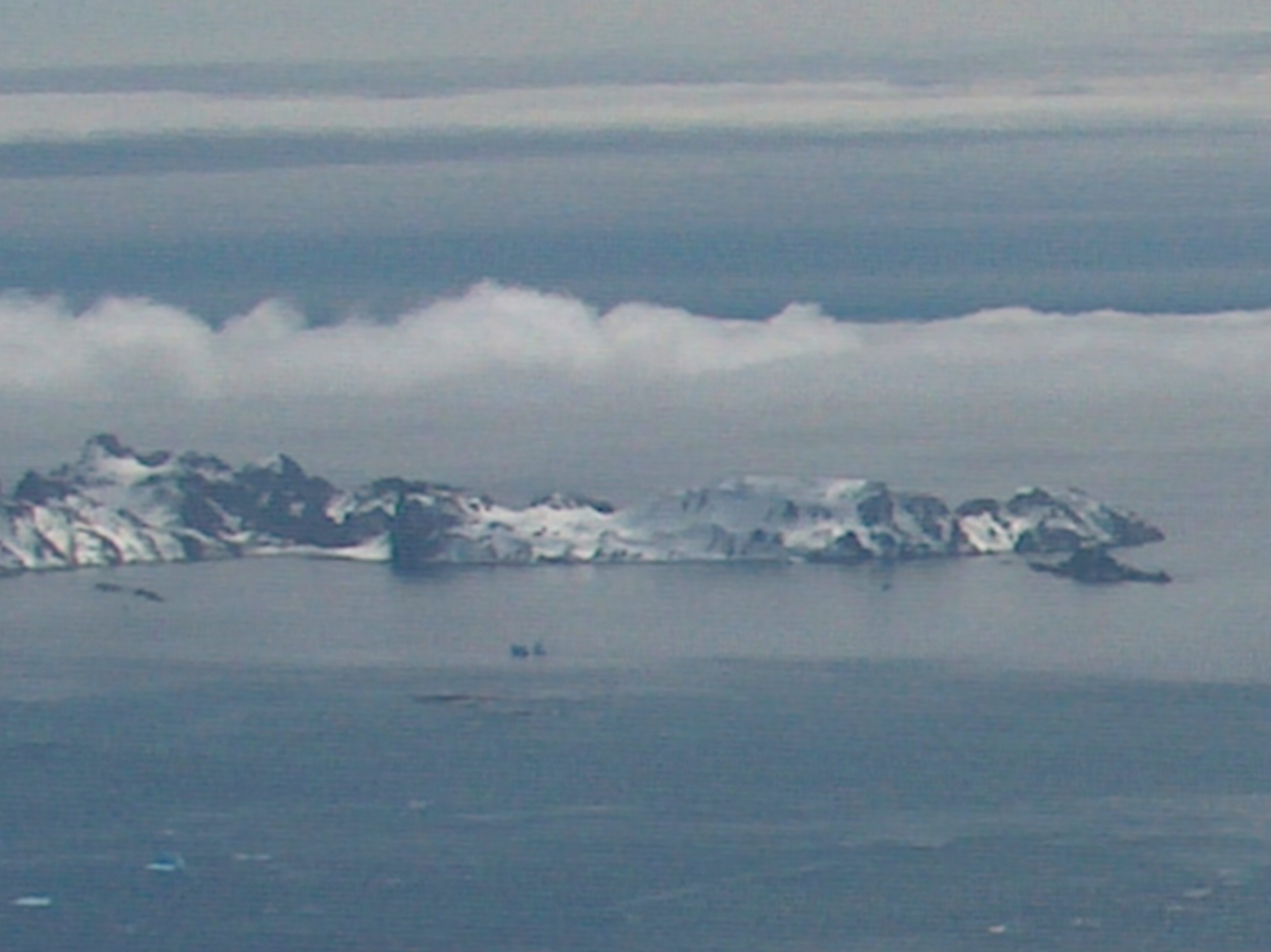 Kozma Cove in Desolation Island, Antarctica seen from Vidin Heights, Livingston Island